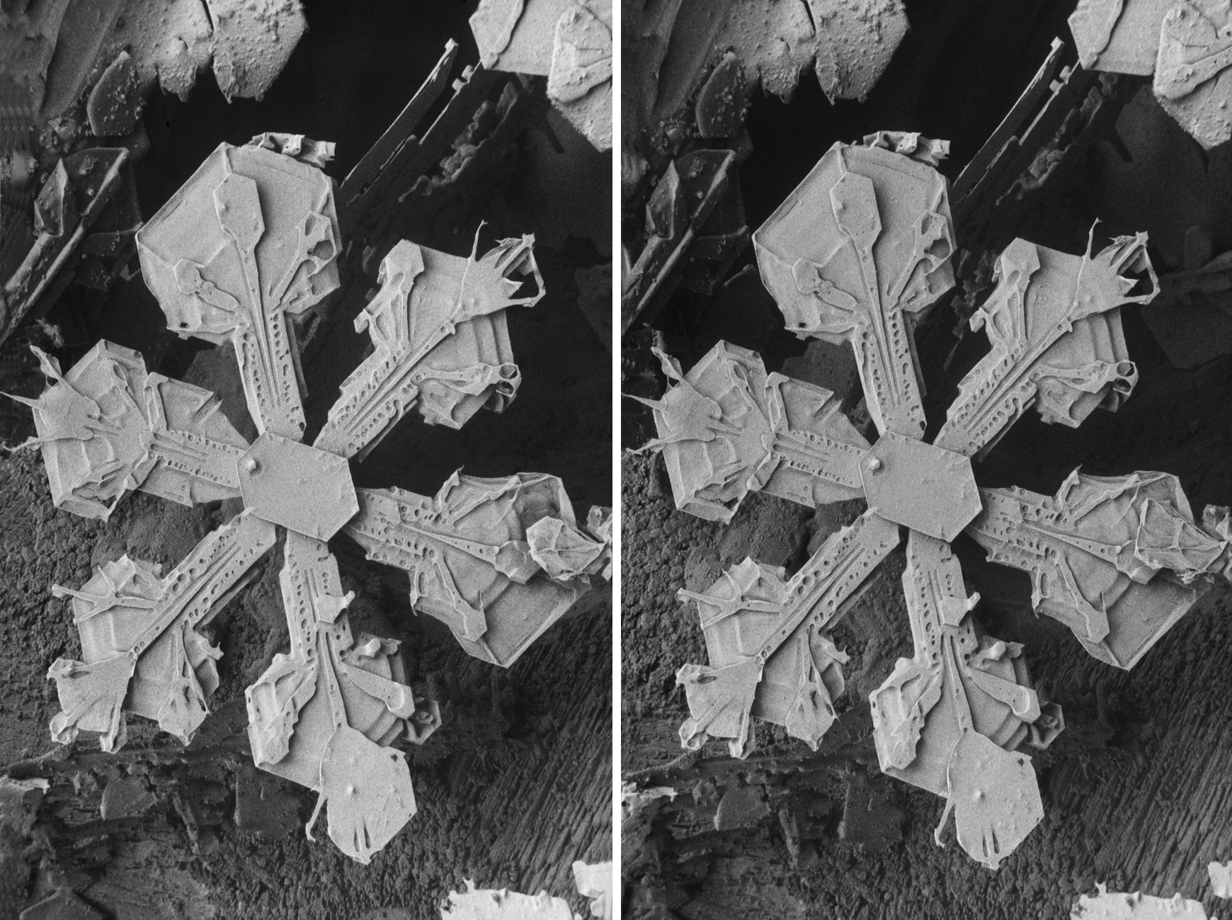 Cross eyed Stereo image of snow crystals.